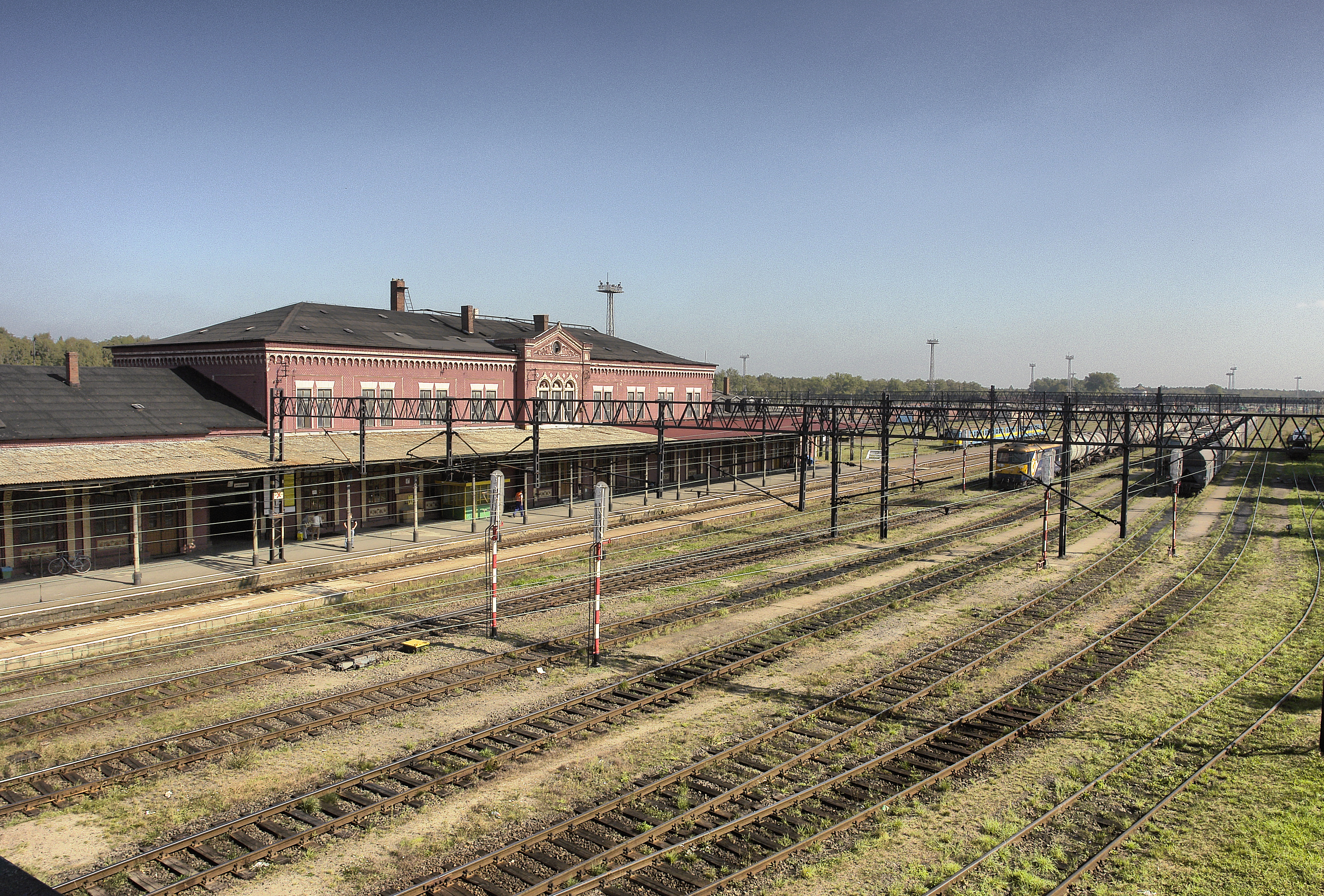 railway station in Węgliniec, Poland